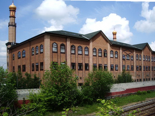 Jamiatul Ilm Wal Huda Mosque